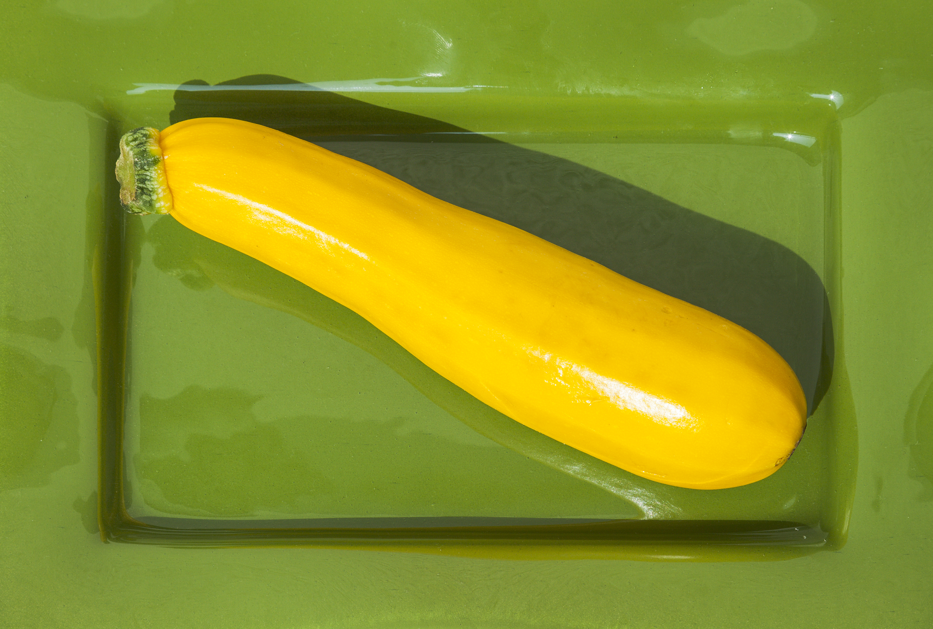 Zucchini, Munich, Germany